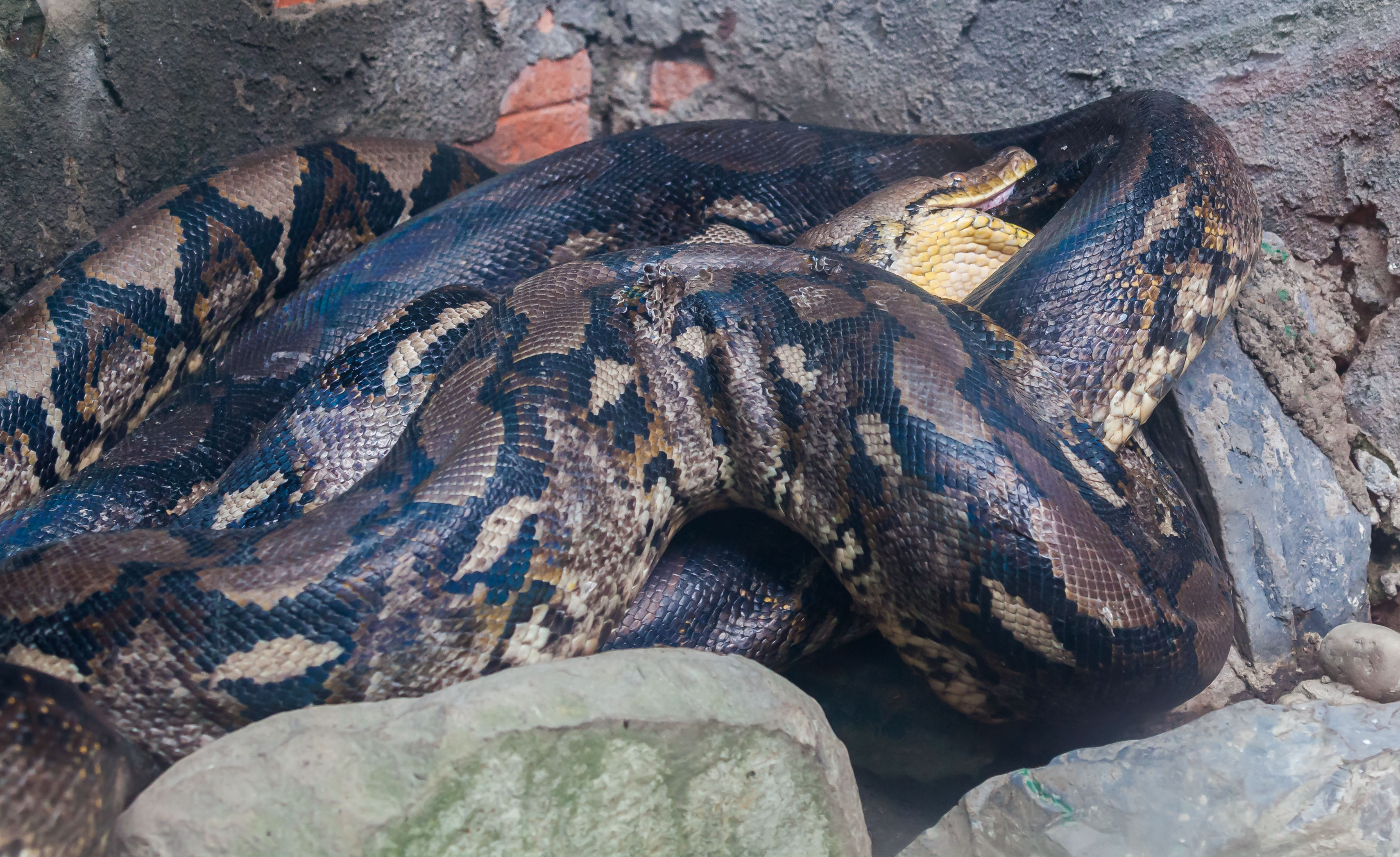 Mating of Reticulated phytons (Python reticulatus), Ho Chi Minh City Zoo, Vietnam